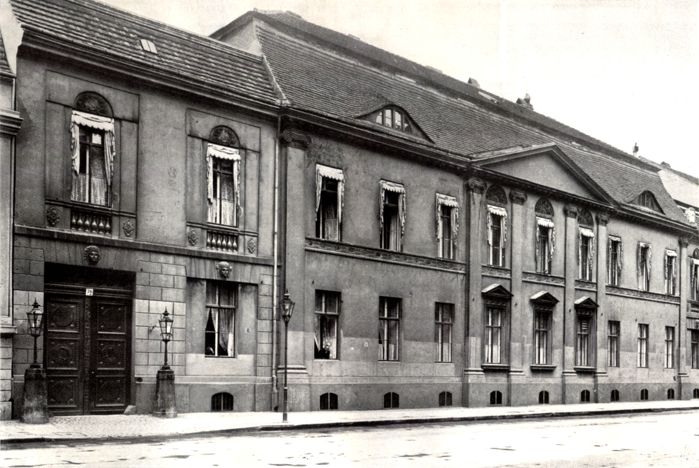 Berlin - Palais at Wilhelmstraße 76 around 1880, later part of the Ministry of Foreign Affairs